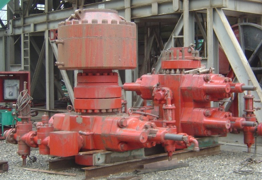 One set of blowout preventors, broken down into two pieces, for a natural gas well in Northern Italy, Autumn 2005.